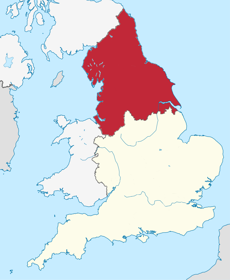 Shaded in red are the three regions usually described collectively as Northern England: North West England, North East England and Yorkshire and the Humber. Region boundaries are not shown.